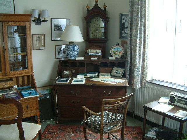 Wadebridge, The John Betjeman Centre Memorabilia Room. Here is the great man's desk and telephone from his home in Trebetherick. Also there to be seen is a superb collection of his books, medals, photographs and so on. While you are here, take the opportunity to have a cup of coffee to support the running of the centre as there is no charge to visit the memorabilia room.